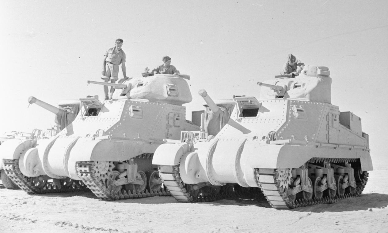 Grant and Lee tanks of 'C' Squadron, 4th (Queen's Own) Hussars, 2nd Armoured Brigade, El Alamein position, Egypt, 7 July 1942. Photographer: No 1 Army Film & Photographic Unit